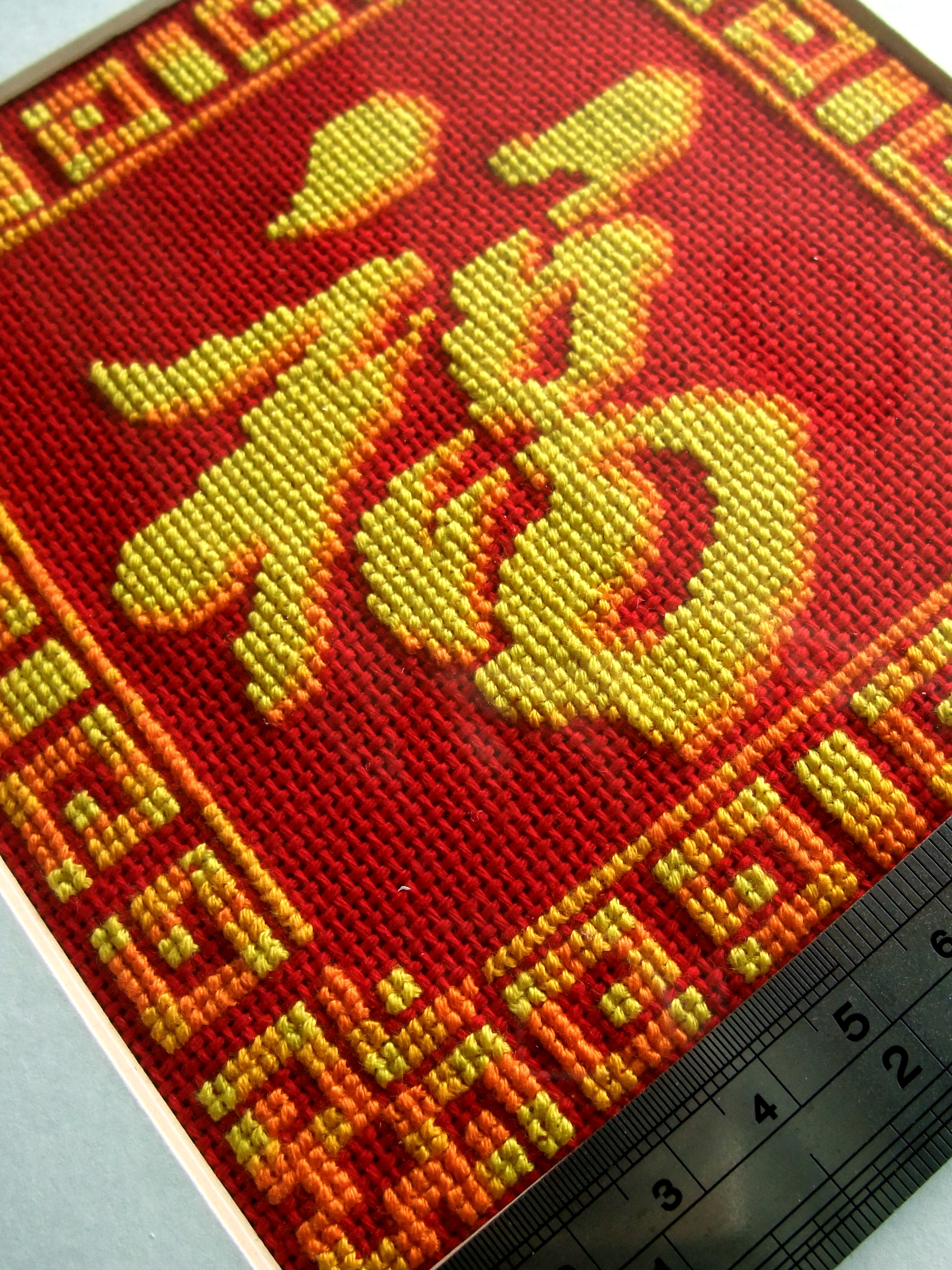 A framed cross-stitch embroidery of the Chinese character for "good fortune".